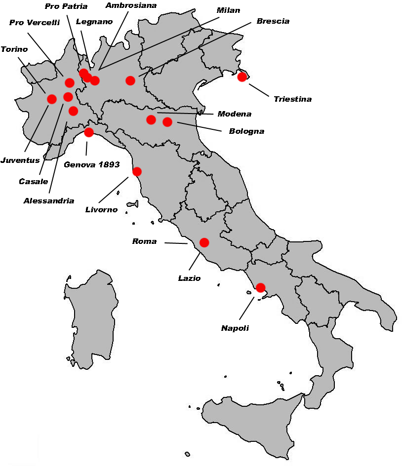 Serie A 1930-31 team locations